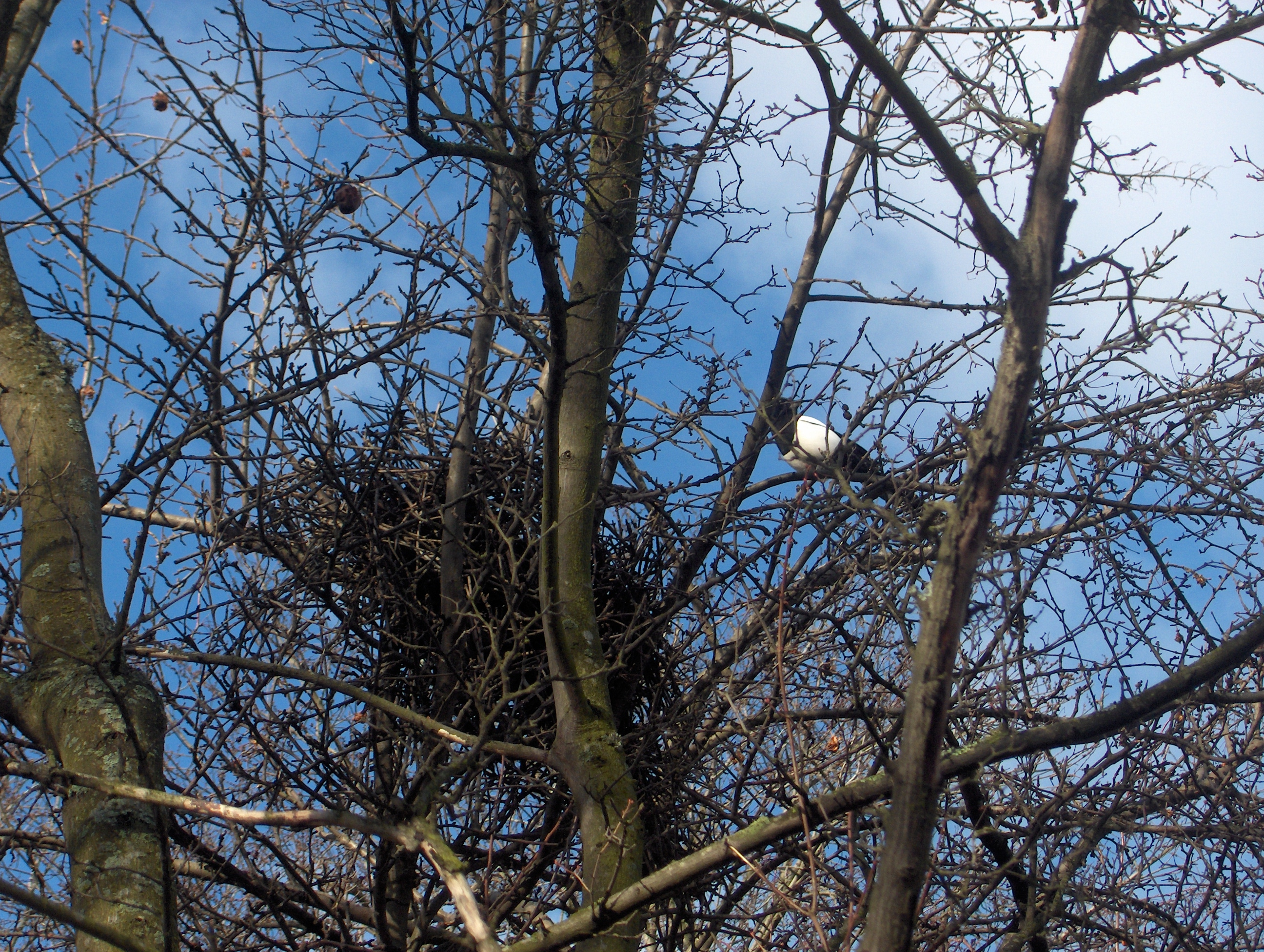 European Magpie (Pica pica in Latin) and European Magpie nest in Enskededalen in Stockholm. Photographed by me in spring 2008.